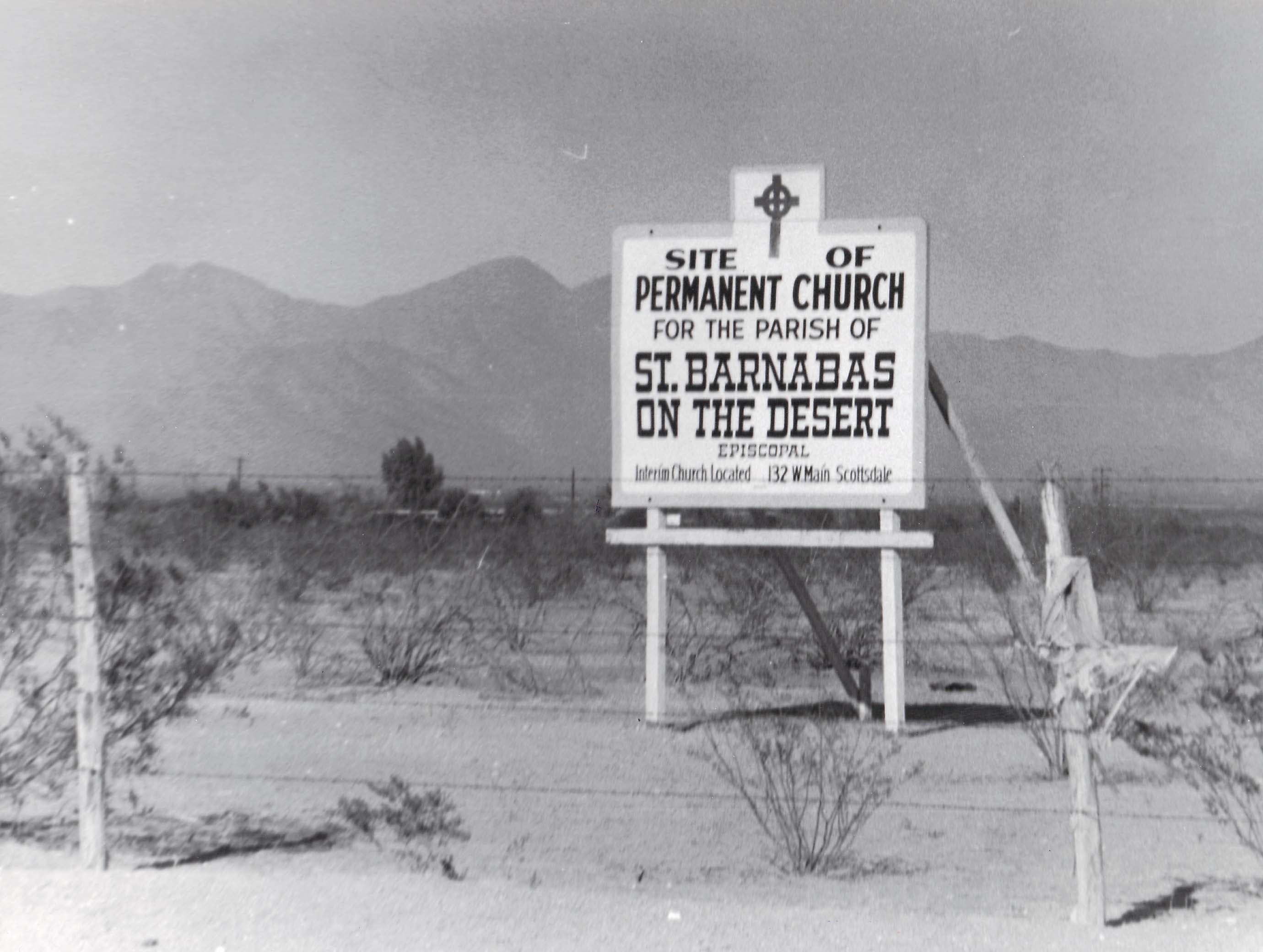 Pre-construction site of Saint Barnabas on the Desert